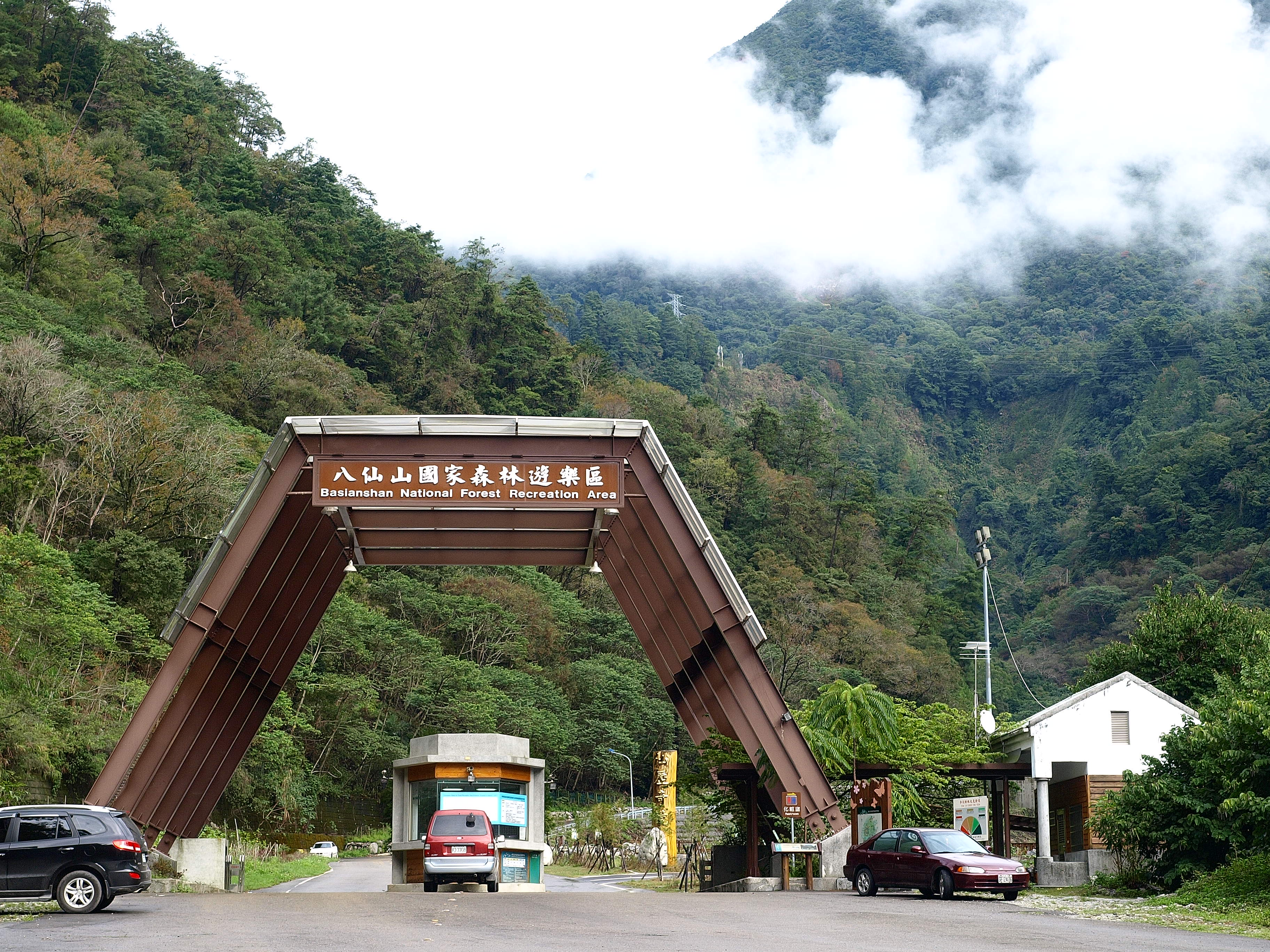 Basianshan National Forest Recreation Area中文（中国大陆）: 八仙山国家森林游乐区中文（台灣）: 八仙山國家森林遊樂區